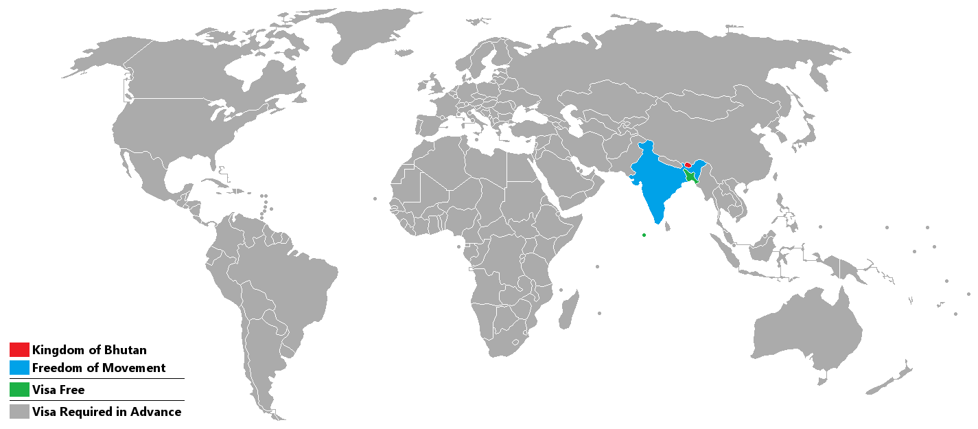 Bhutan's visa policy Bhutan Freedom of movement Visa-free